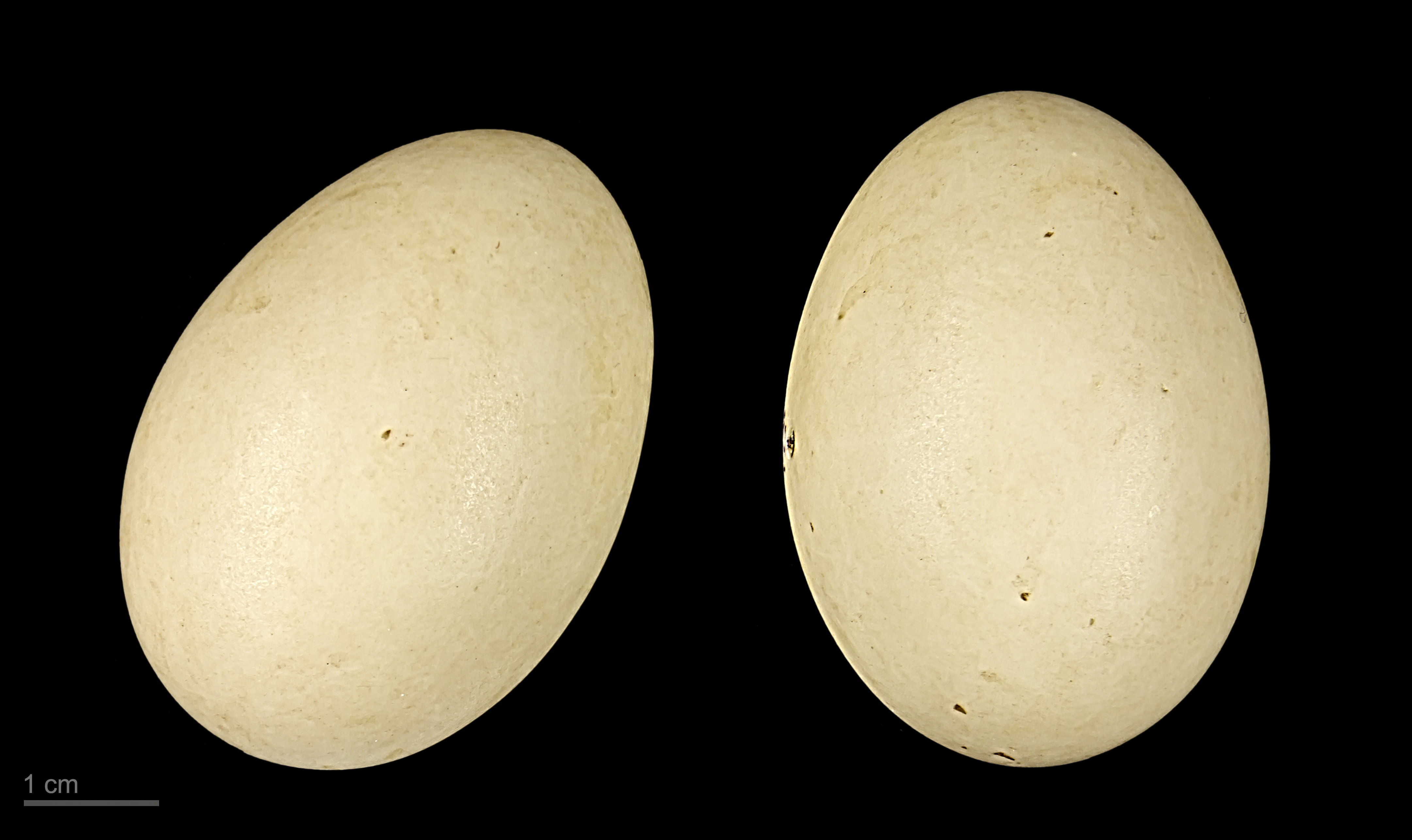 Eggs of Hottentot teal Two specimens of the same spawn ; collection of Jacques Perrin de Brichambaut.